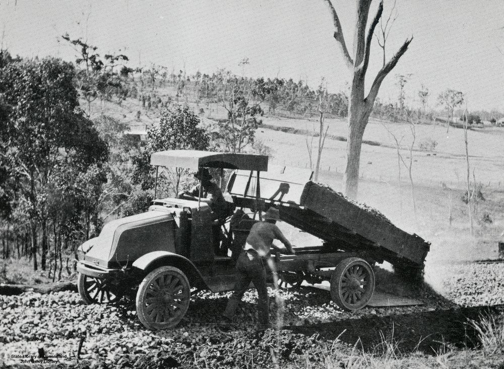 Building roads with a mechanised truck, ca. 1910-1920 Mechanisation comes to road building in the early 1900s (Description supplied with photograph). Two men lay gravel on a new road from a tilt tray on the back of a motor truck.